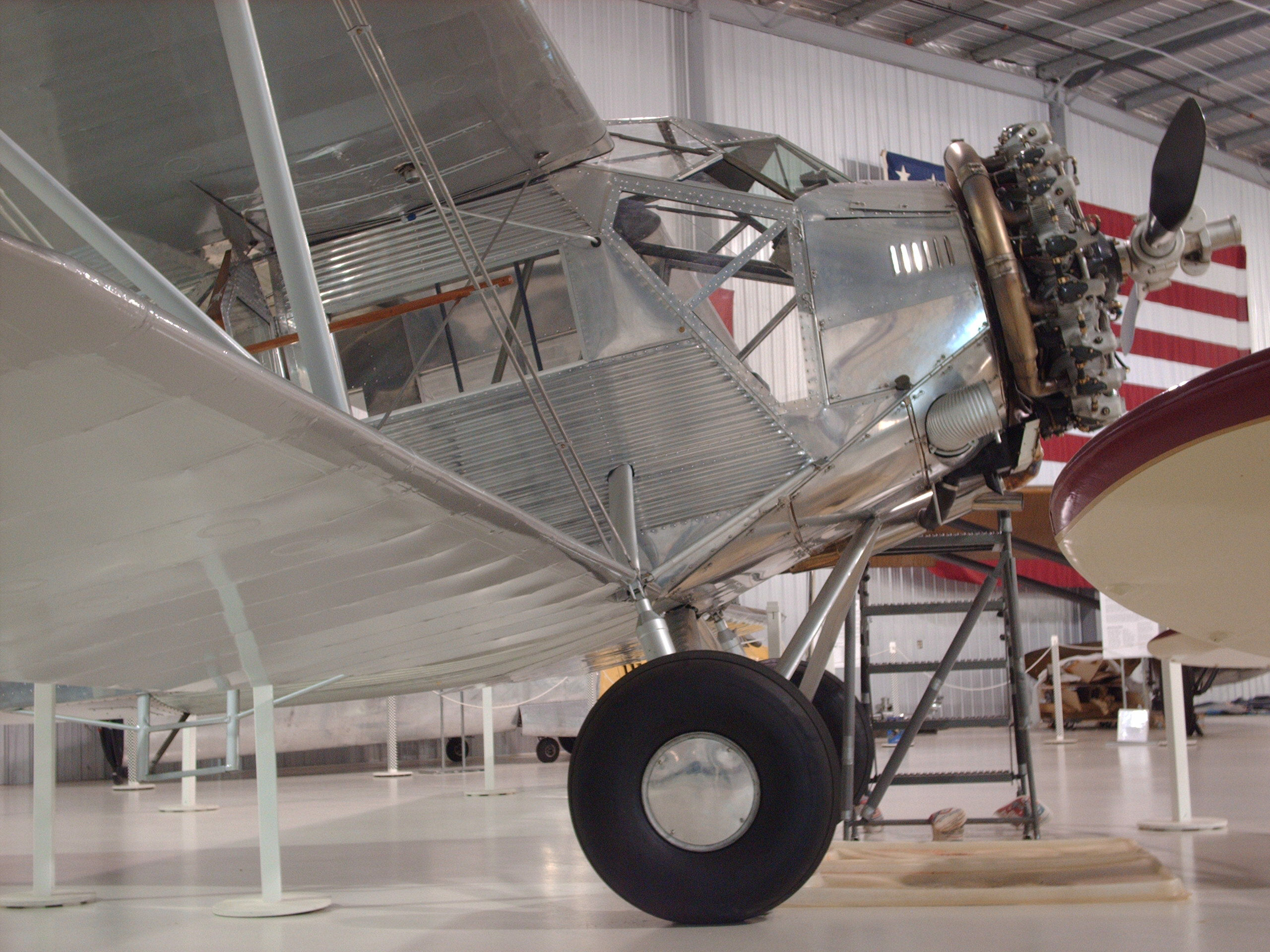 Cunningham-Hall PT-6F in the Herrick Collection, Anoka MN